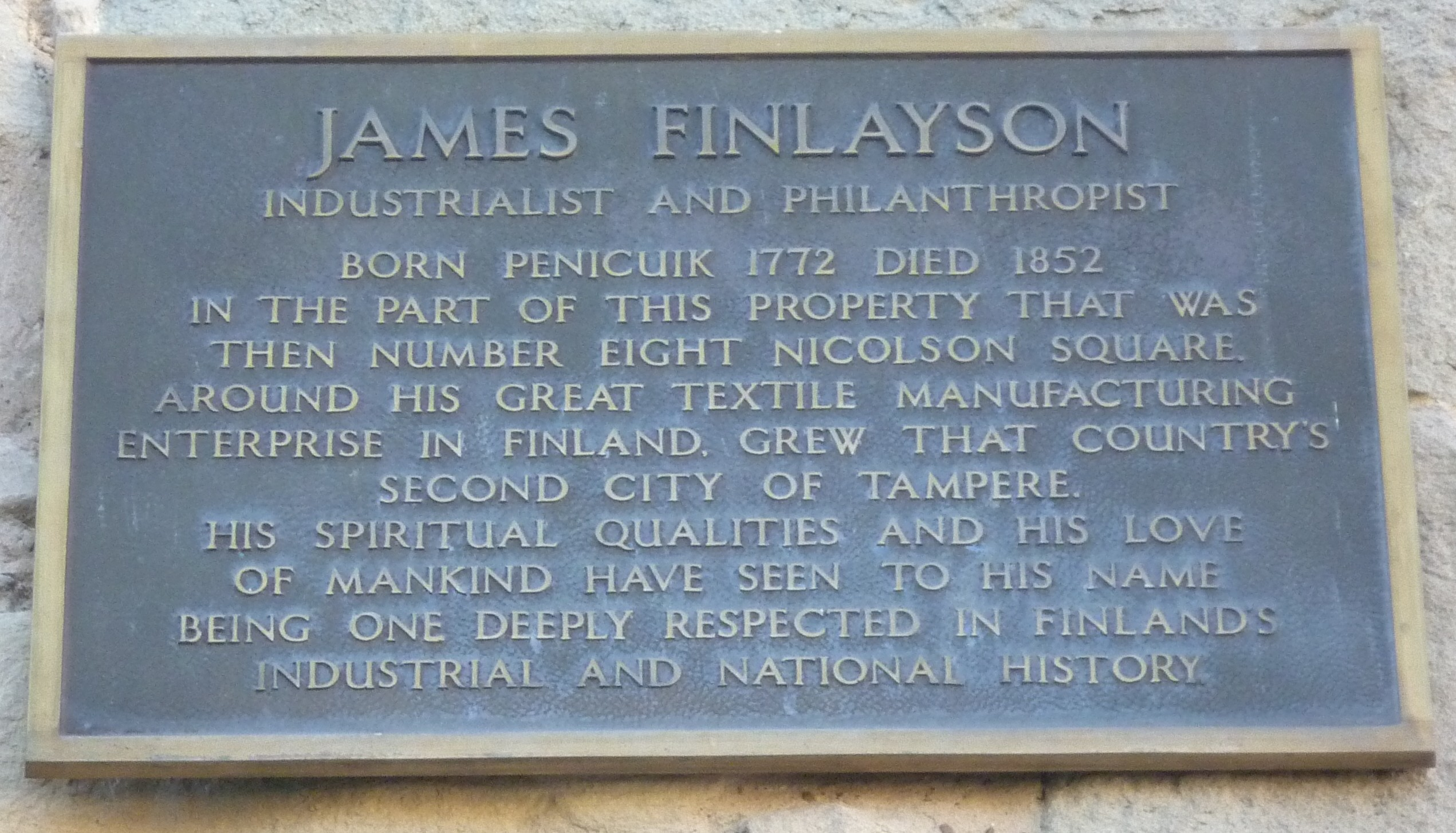 James Finlayson plaque, Nicolson Square, Edinburgh